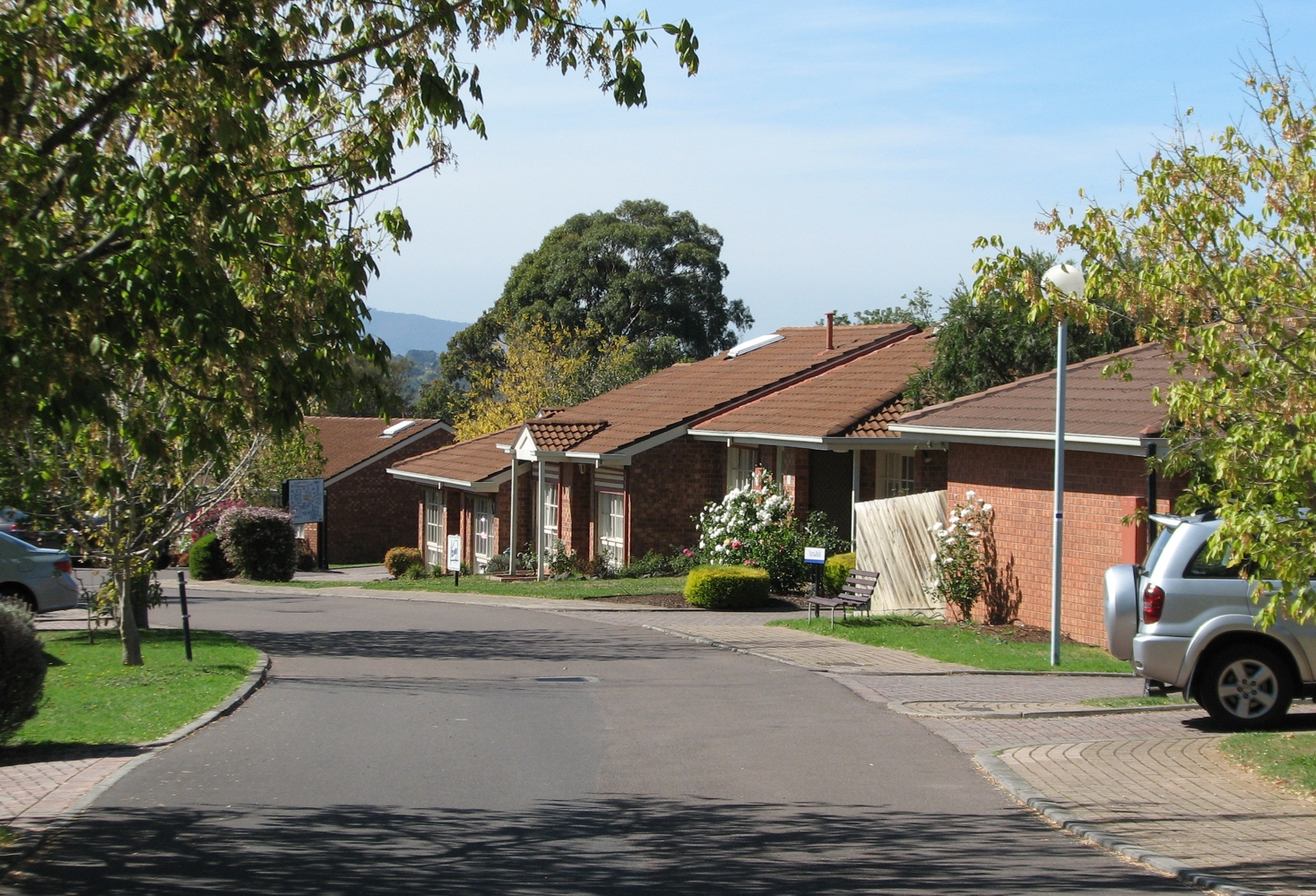 Hayville Village, Box Hill South, Victoria, Australia